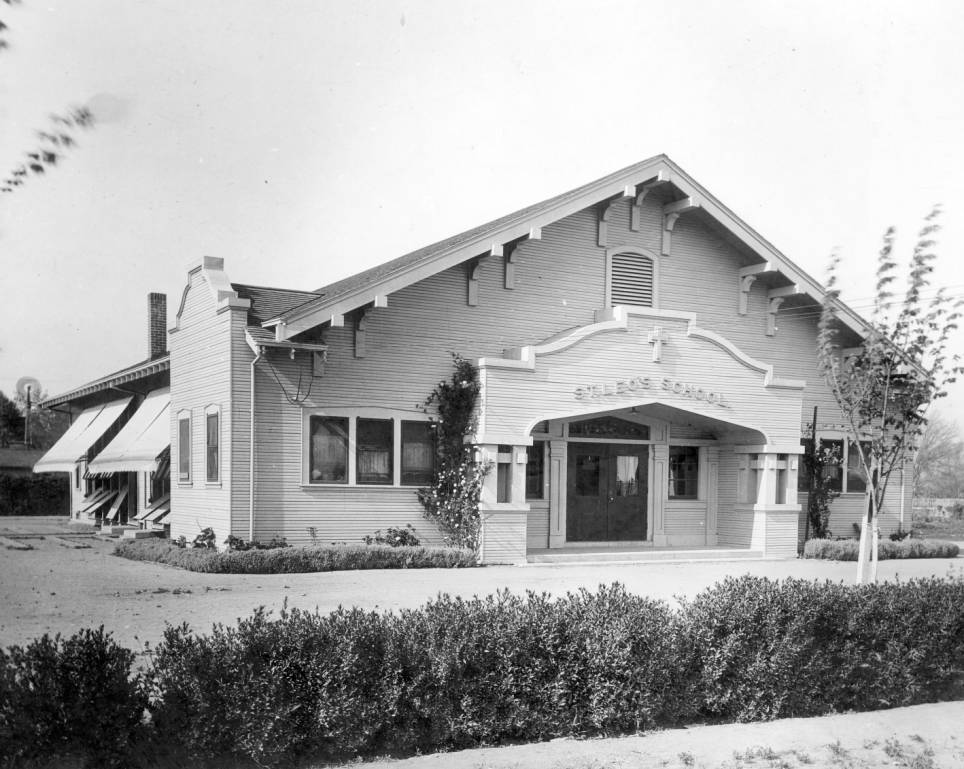 OCLC-798964538. Exterior view of Saint Leo the Great School of San Jose built in 1915 by the Sisters of Notre Dame. Gordon, John C. (photographer). San Jose State University Library Special Collections & Archives